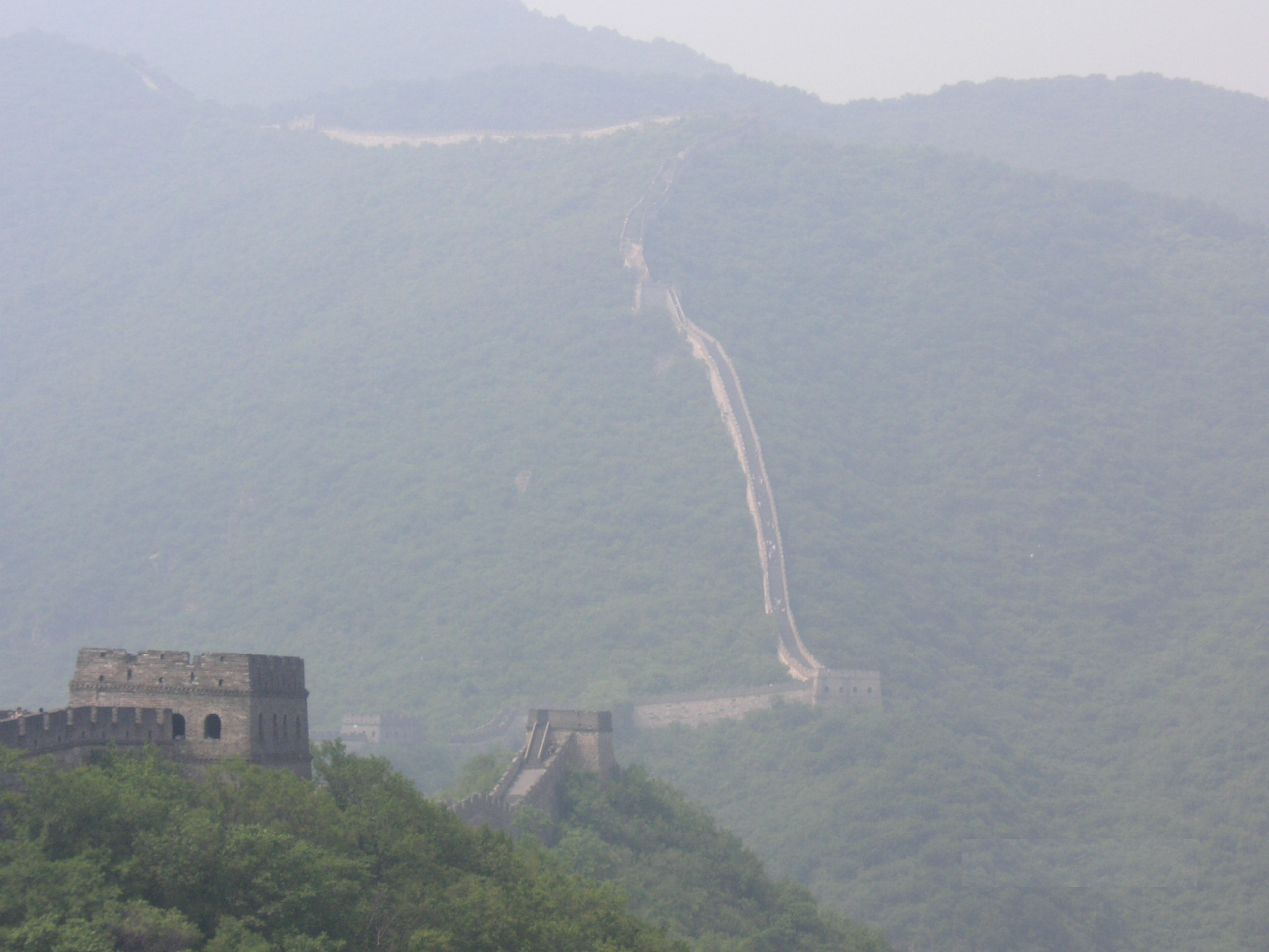 The Great Wall of China at Mutianyu